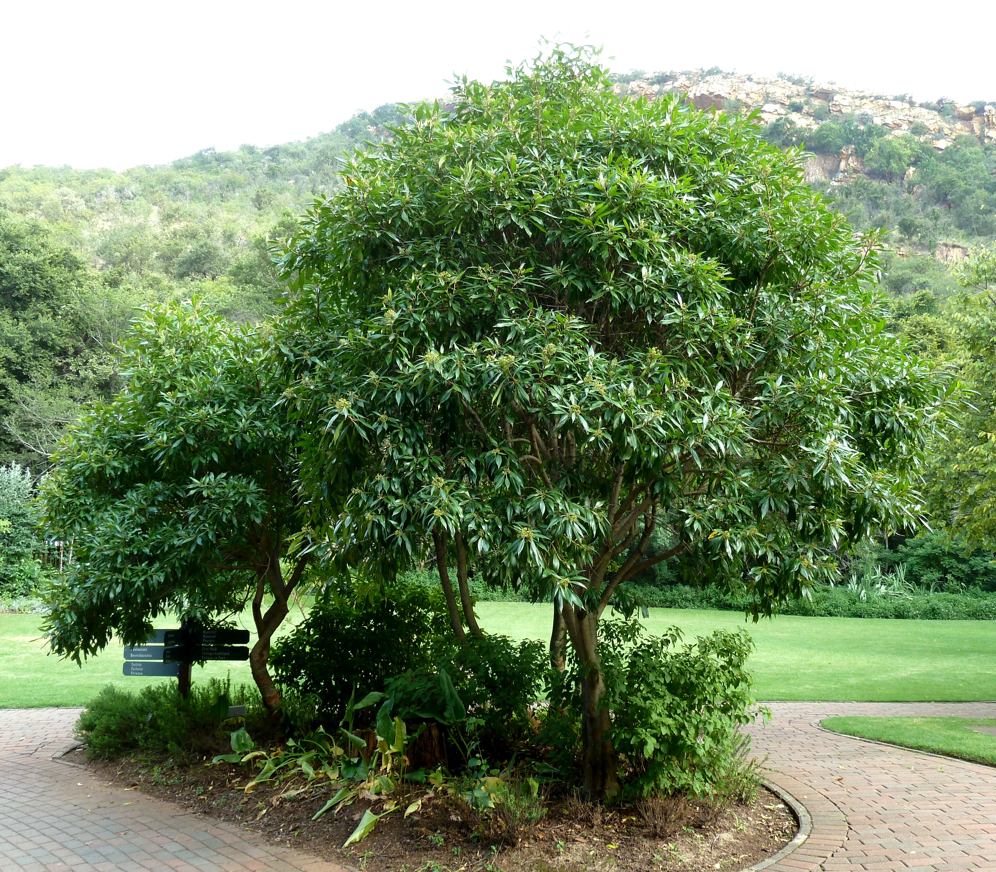 Forest lavender at the Walter Sisulu National Botanical Garden in western Roodepoort, South Africa. This threatened species is endemic to Mpumalanga and Swaziland.